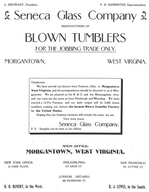 Seneca Glass Company advertisement in December 1896 Illustrated Glass and Pottery World magazine. Company was located in Morgantown, West Virginia, USA after a move from Fostoria, Ohio.